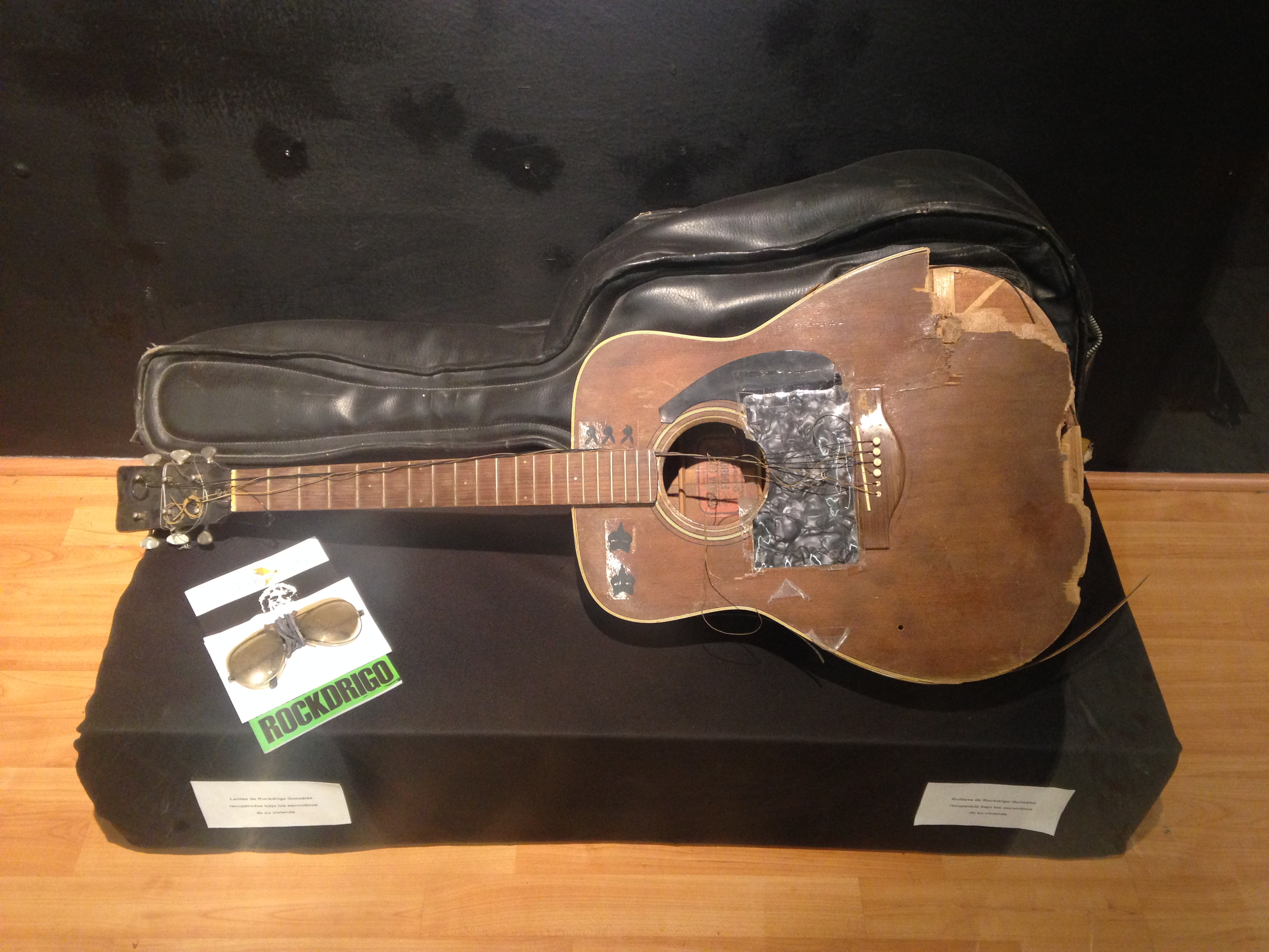 Glasses and guitar that belonged to Rockdrigo González, found at Bruselas building debris where he lived, on September 18, 1985. Exposed at Pino Suárez station in 2015, Mexico City Metro. Mexico City.